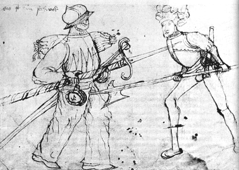 Sketch by landsknecht mercenary Paul Dolstein of landsknecht fighting swedish militiaman